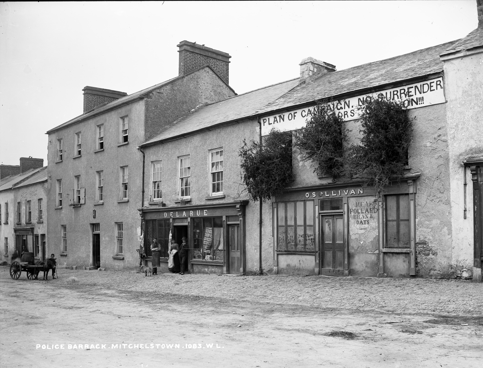 Feeling some performance anxiety because this photo is very special - it's our 1,000th photo on Flickr Commons! However, it's also special in that it's a quite rare (we think) capture of an eviction in a town. Most that we have are in rural settings. We thought this may have been taken in September 1887 around the time of the "Mitchelstown Massacre", but as always, research here was a great help in establishing a more likely date of June 1887... The Plan of Campaign was an attempt to gain lower rents through collective bargaining, because prices for agricultural exports had fallen dramatically in the 1880s. Date: Circa June 1887 NLI Ref.: L_ROY_01083